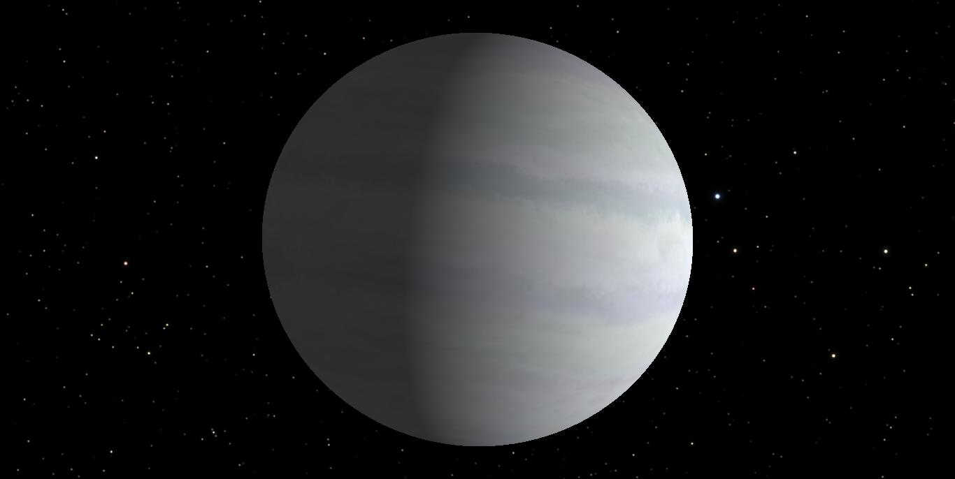 This is the planet Mu Arae b, orbiting the star Mu Arae in the constellation of Ara. The picture is photographed in Celestia.